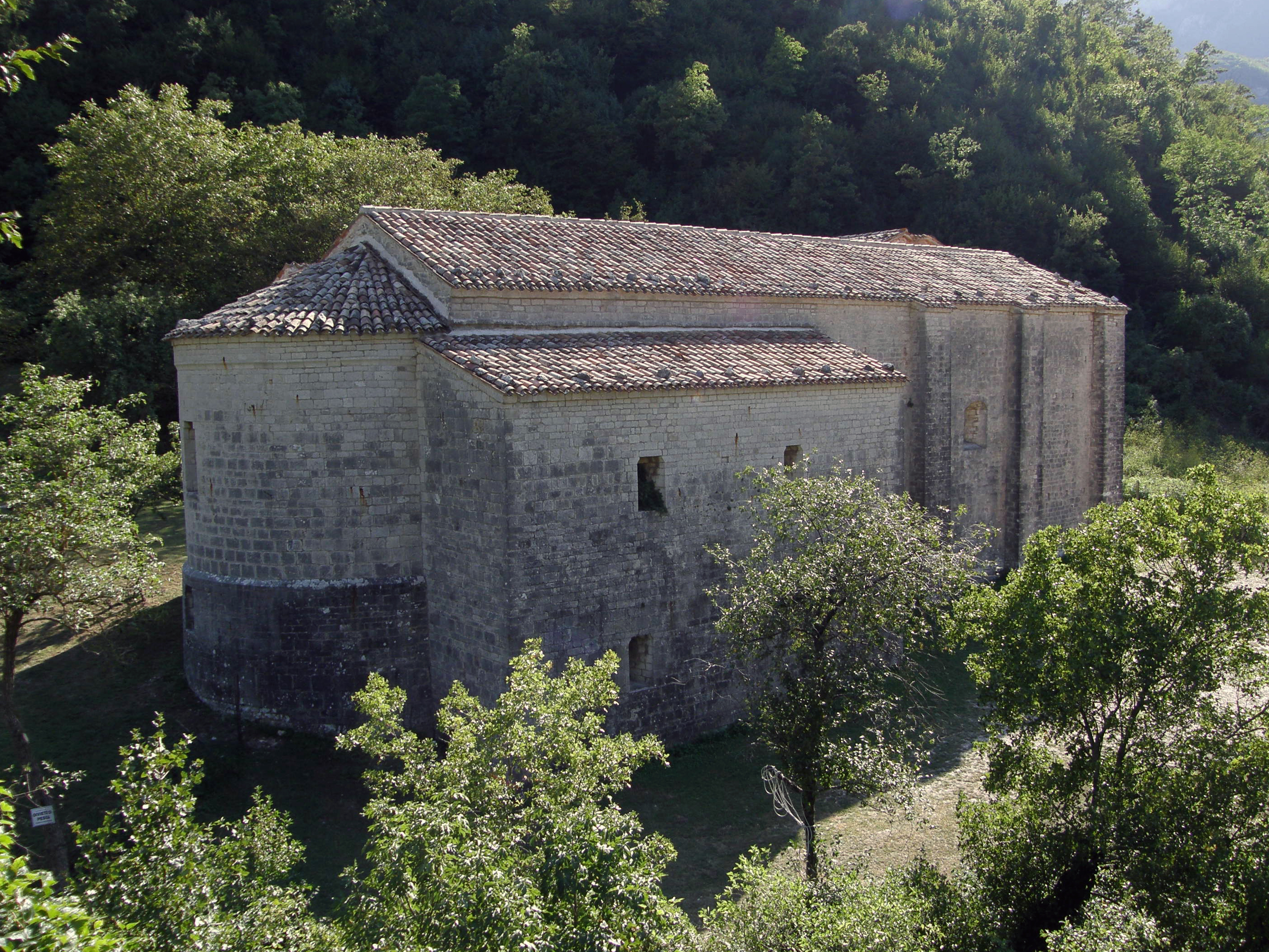 Scheggia, Italy - Monte Cucco, Abbazia di Santa Maria di Sitria